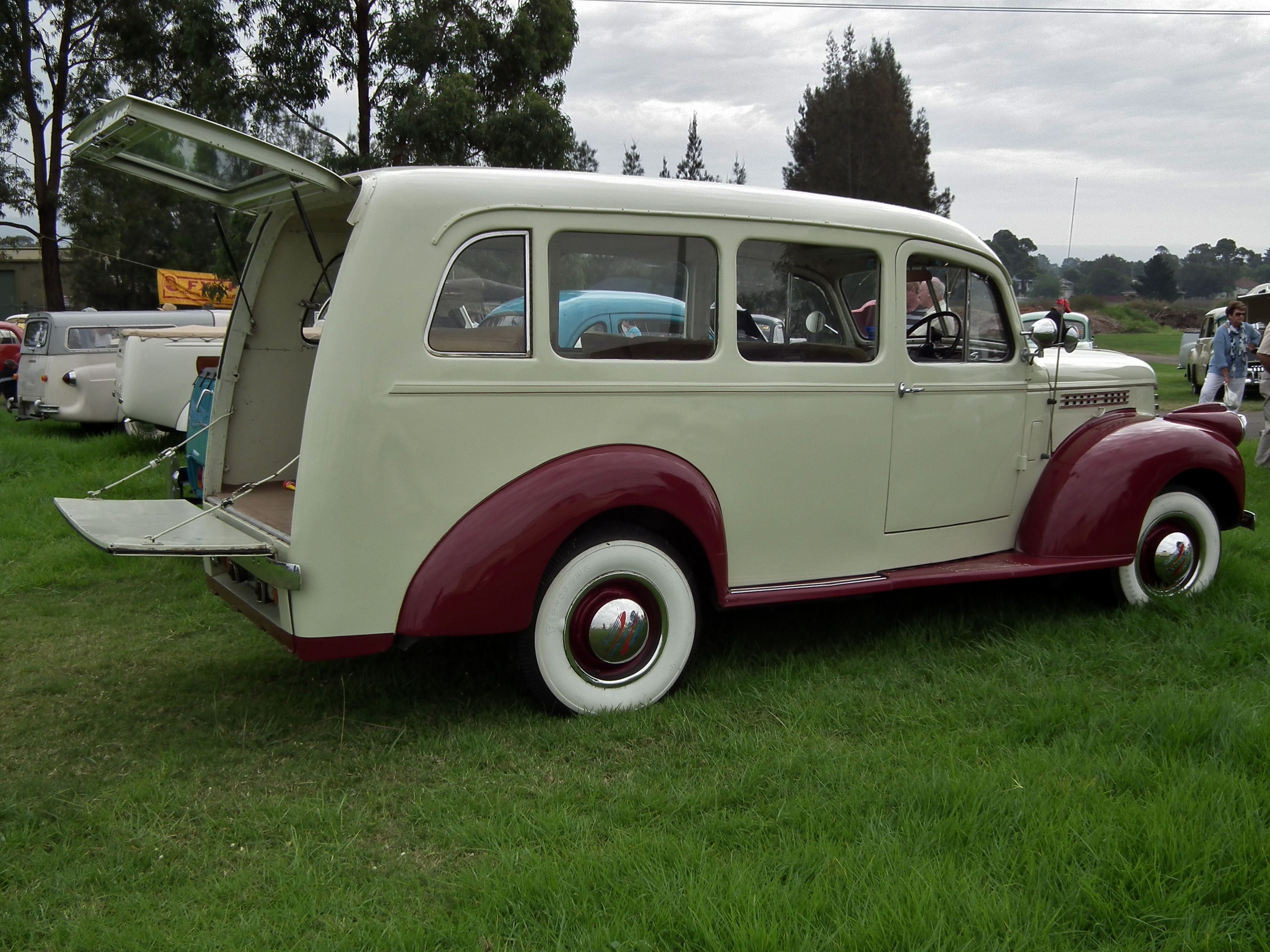 1942 Chevrolet 8 seater panel van. Taken at the General Motors Display Day, held in the grounds of Penrith Panthers Club, Penrith NSW.